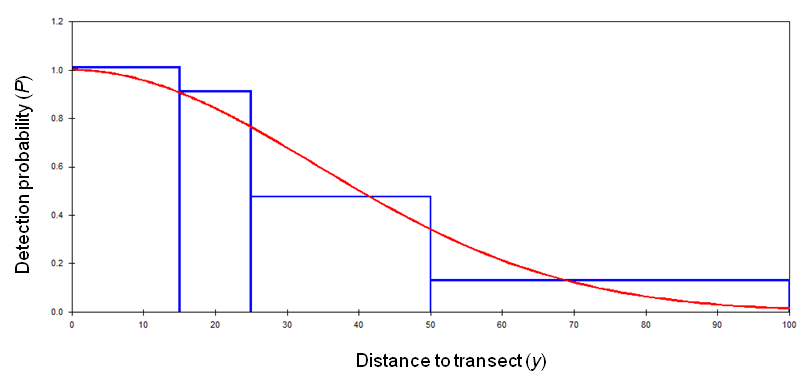 Half-normal model fitted to PDF of detection data during diustance sampling modeling